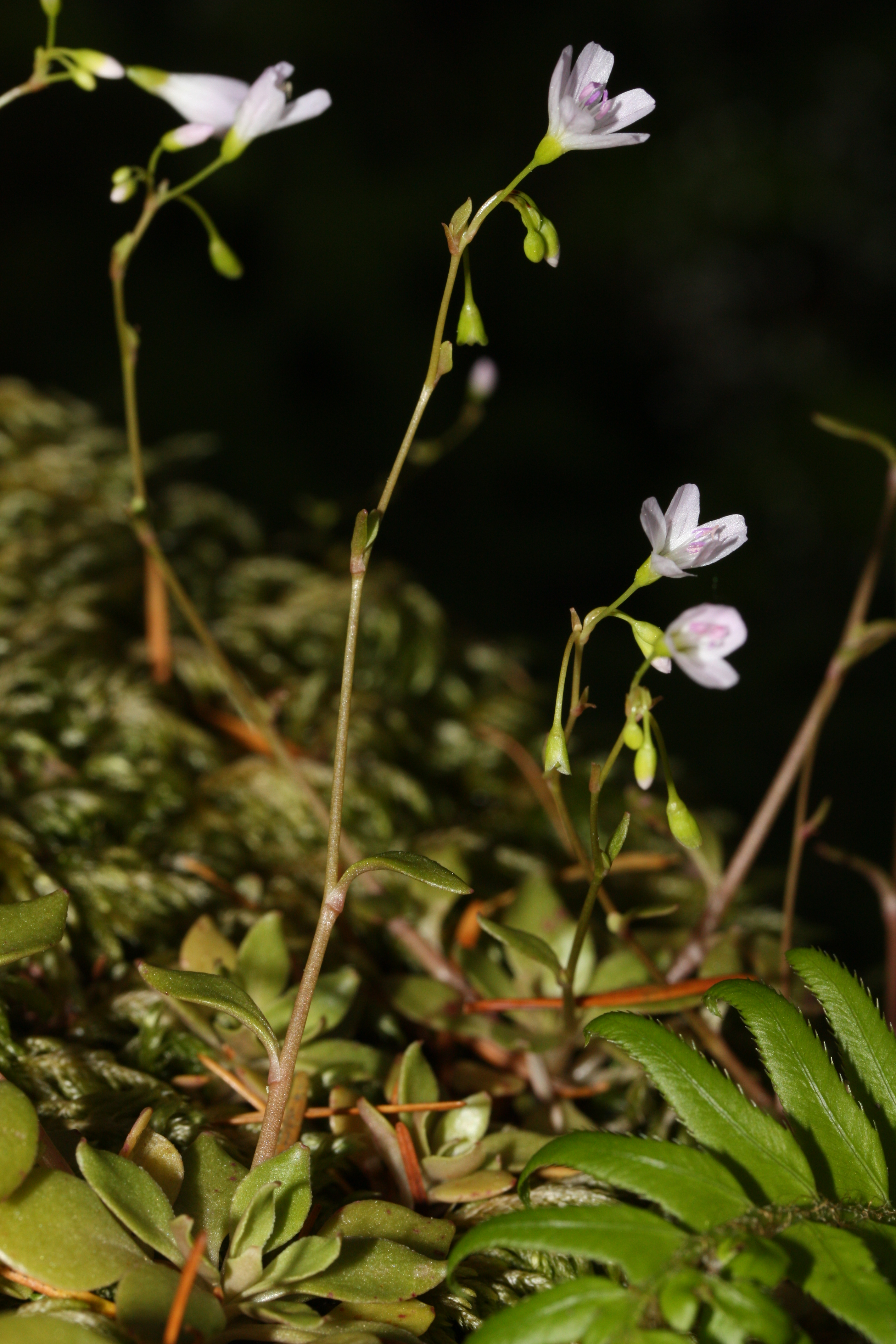 Littleleaf Miner's-lettuce